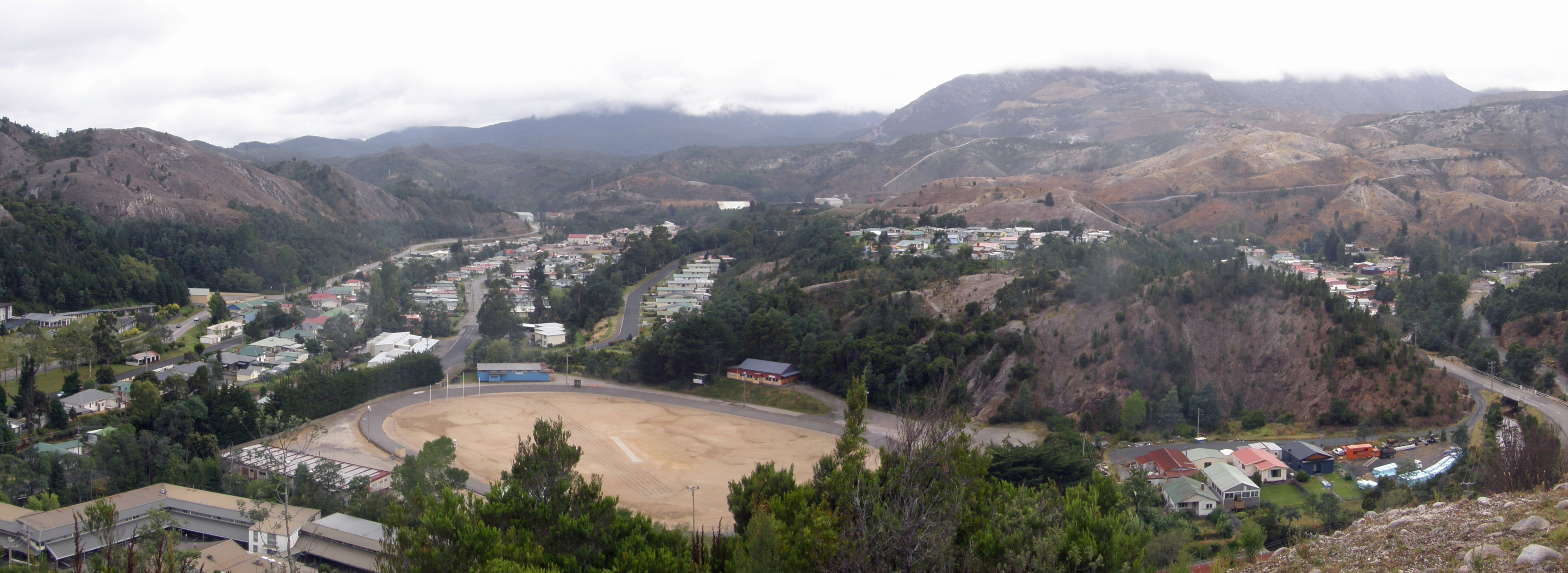 Queenstown footy oval